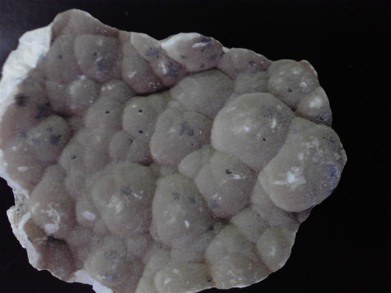 This is a spheroidal crystal of Pectolite. It was produced in Millington Quarry, Basking Ridge, New Jersey, America. University of Tsukuba is owning this.